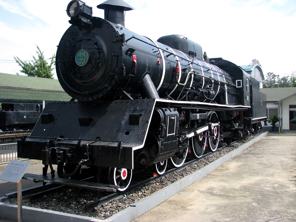 Korea Railroad Stream Locomotive type Pasi 5 23